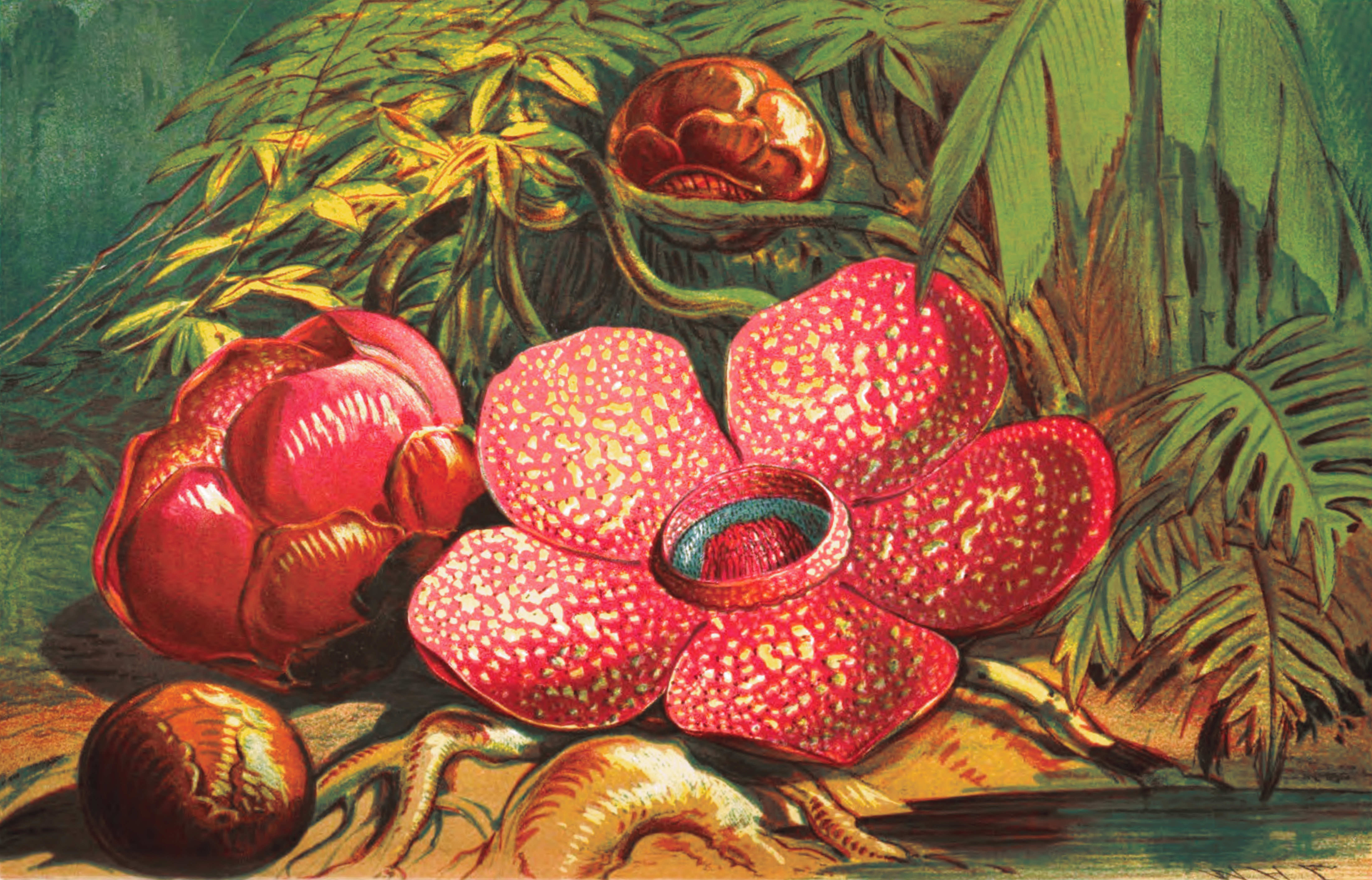 Rafflesia Arnoldii, "noted for producing the largest individual flower on earth". Published in the book Nature and Art Vol.I, page 156/157, published 1866 Day & Son, Ltd, London, scanned by Google Book. Article refers to "Mr Fitch's faithful representation of the plant"; this is probably Walter Hood Fitch (1817 – 1892), the botanical illustrator.